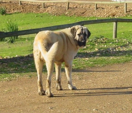 Spanish Mastiff